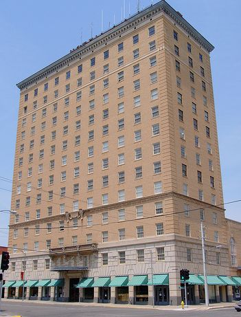 San Angelo Cactus Hotel, old Hilton.